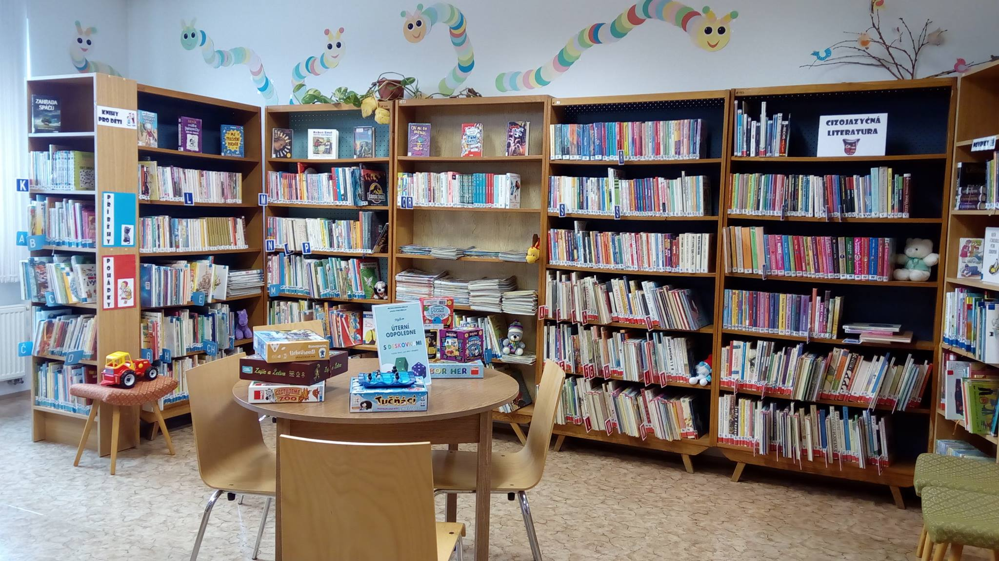 Library.jpg